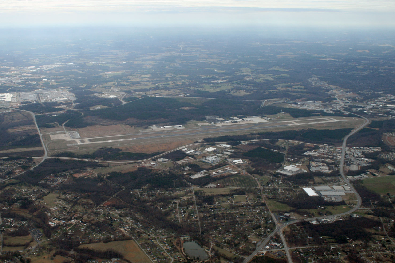 An aerial photo of the Greenville Spartanburg International airport.